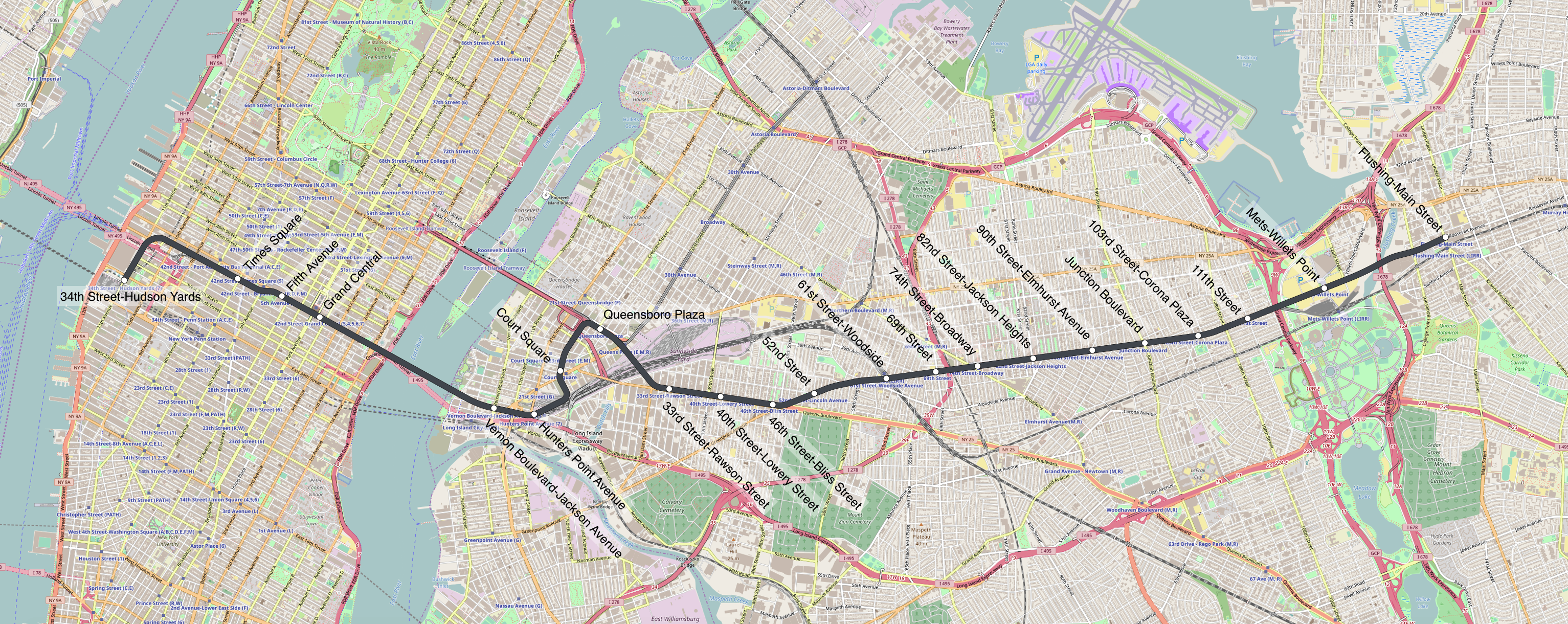 IRT Flushing Line map